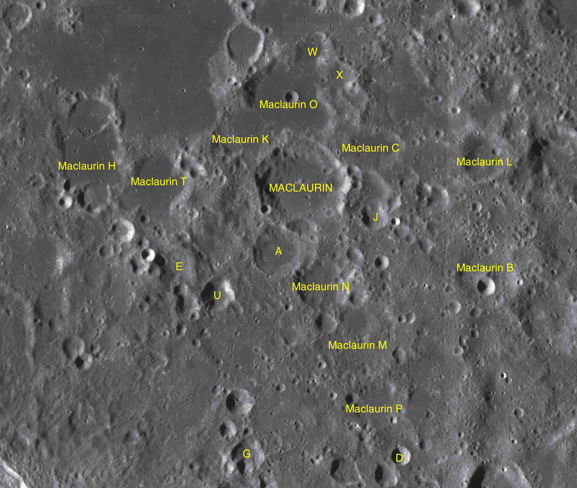 Parts of the charts LAC-62, LAC-63, LAC-80, LAC-81 used for the presentation